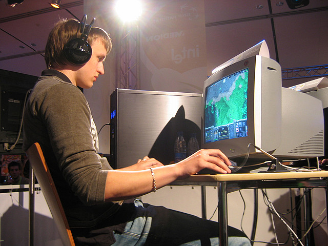 Sebastian Pesic (Fury) playing a game on ESWC 2005 Paris